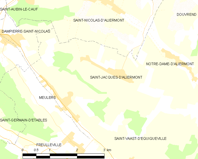 Map of French municipality Saint-Jacques-d'Aliermont